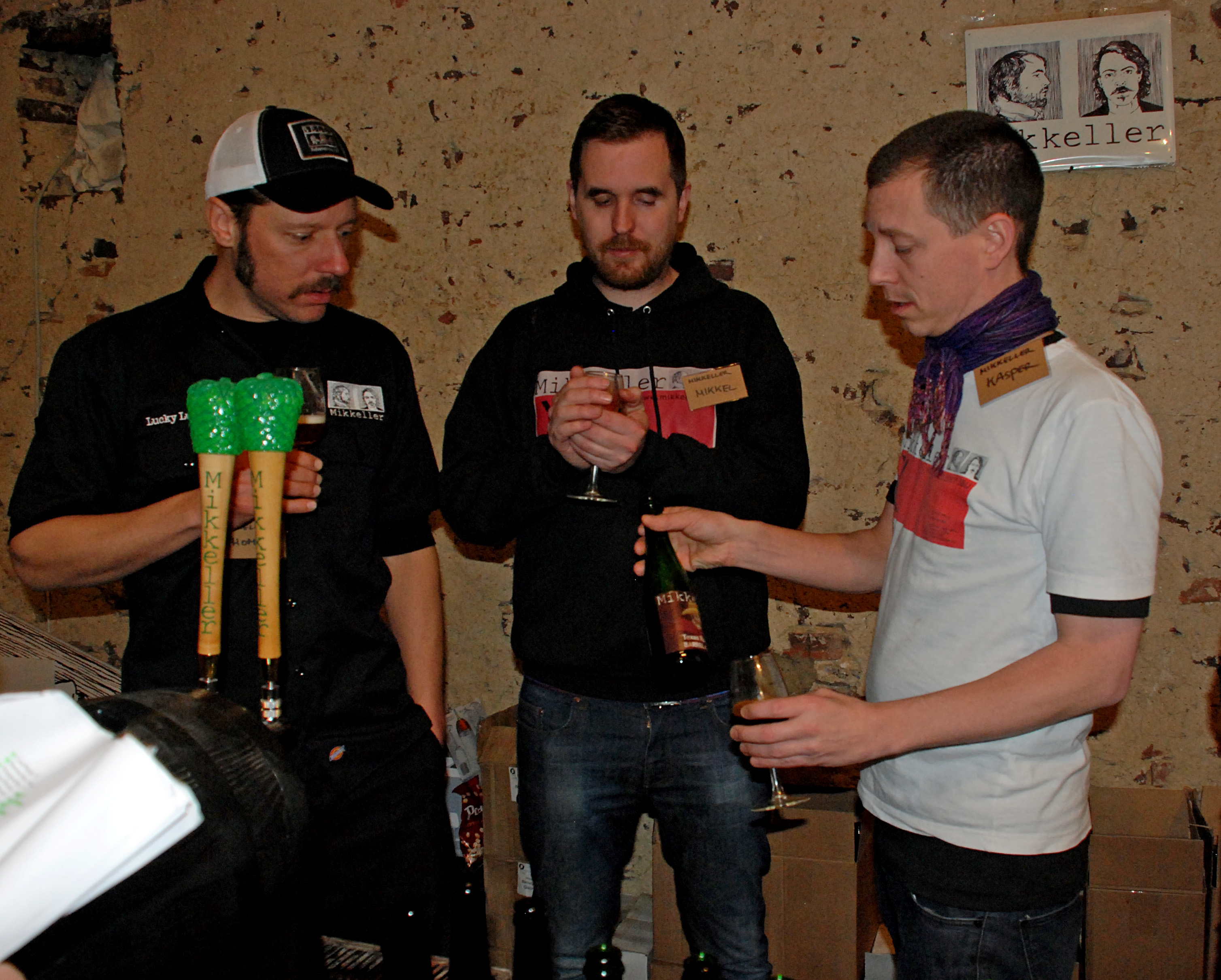 Mikkel Borg Bjergsø at the Alvinne Craft Beer Festival 2011